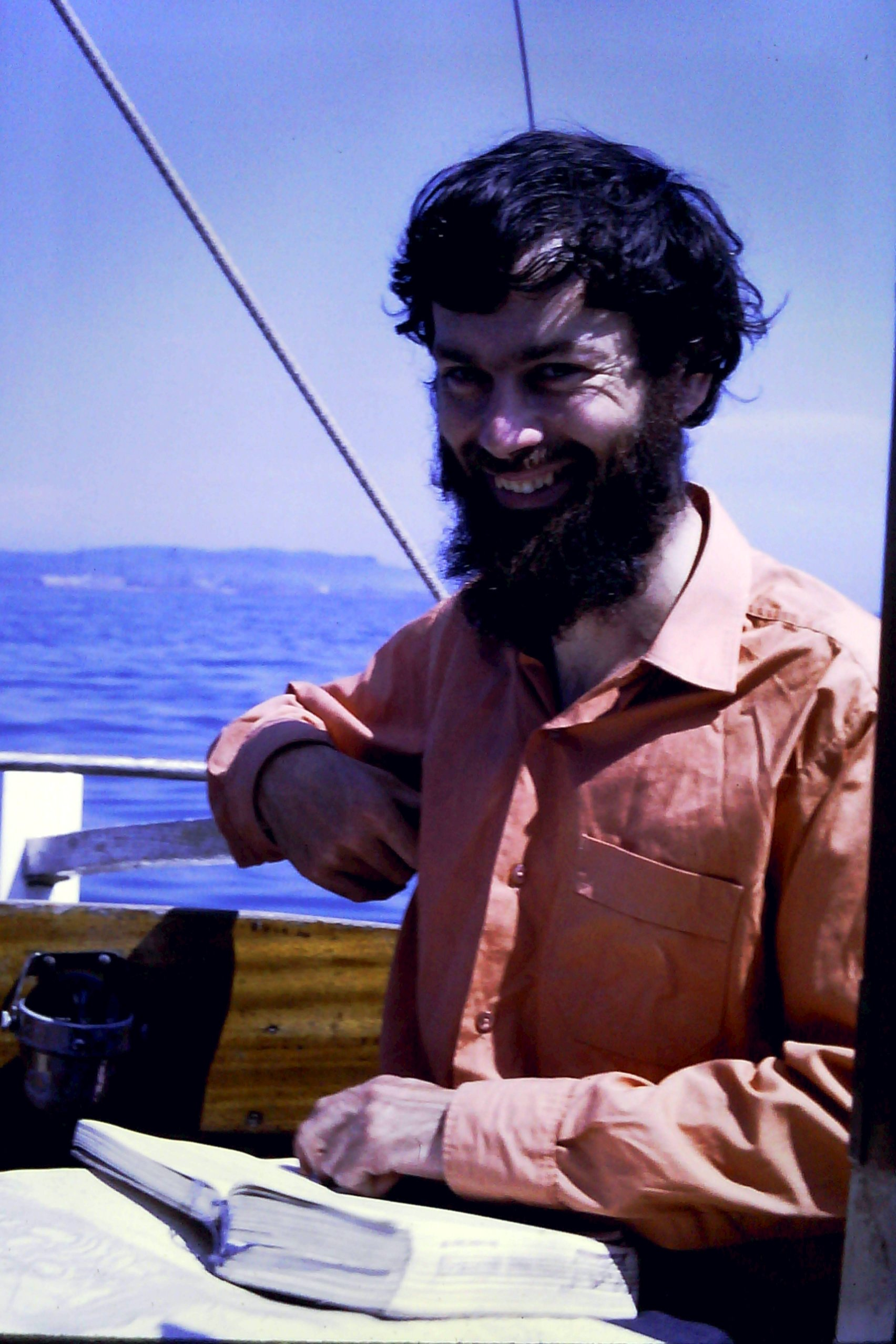 Robin Popplestone giving a tutorial on his yacht whilst sailing in the Firth of Forth. August 1969